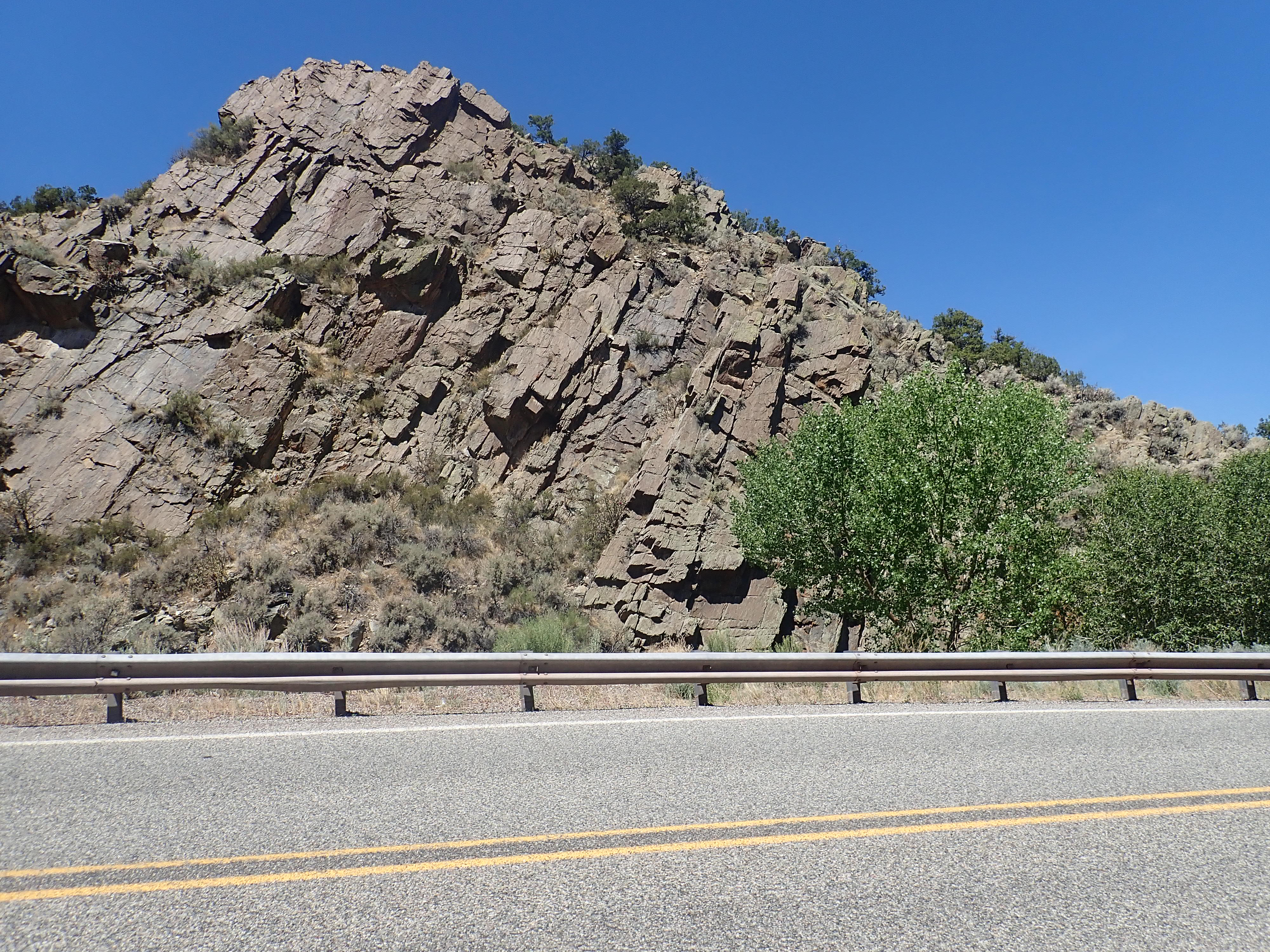 This image shows an outcrop of the Piedra Lumbre Formation, a Calymmian formation (1.45 billion years old) that was deposited in the Pilar Basin during the Mazatzal Orogeny. This is located along the highway from Dixon to Picuris Pueblo, New Mexico, USA.